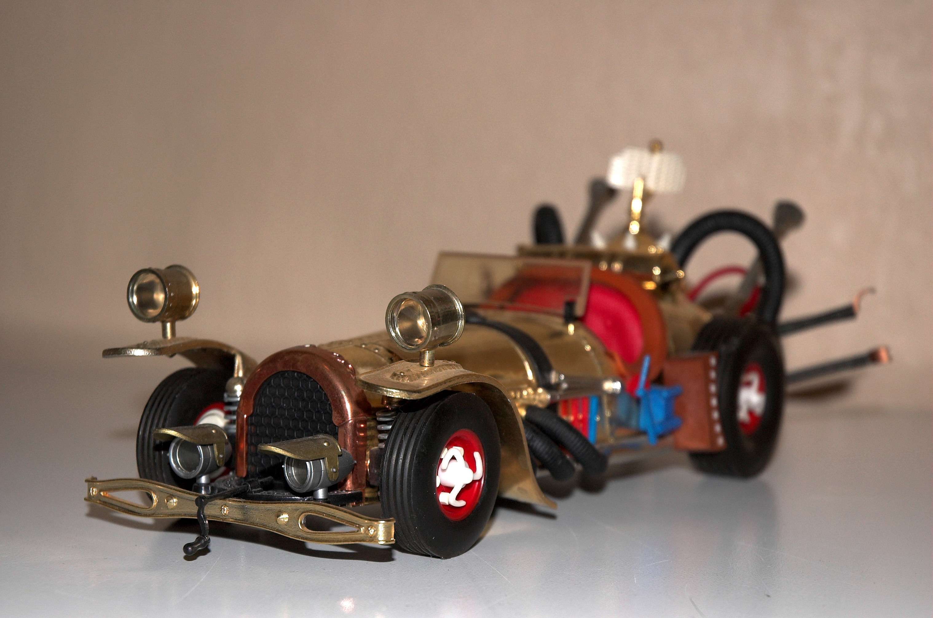 Oringial model of Il Tempo Gigante from the Norwegian movie "Flåklypa Grand Prix" (1975)